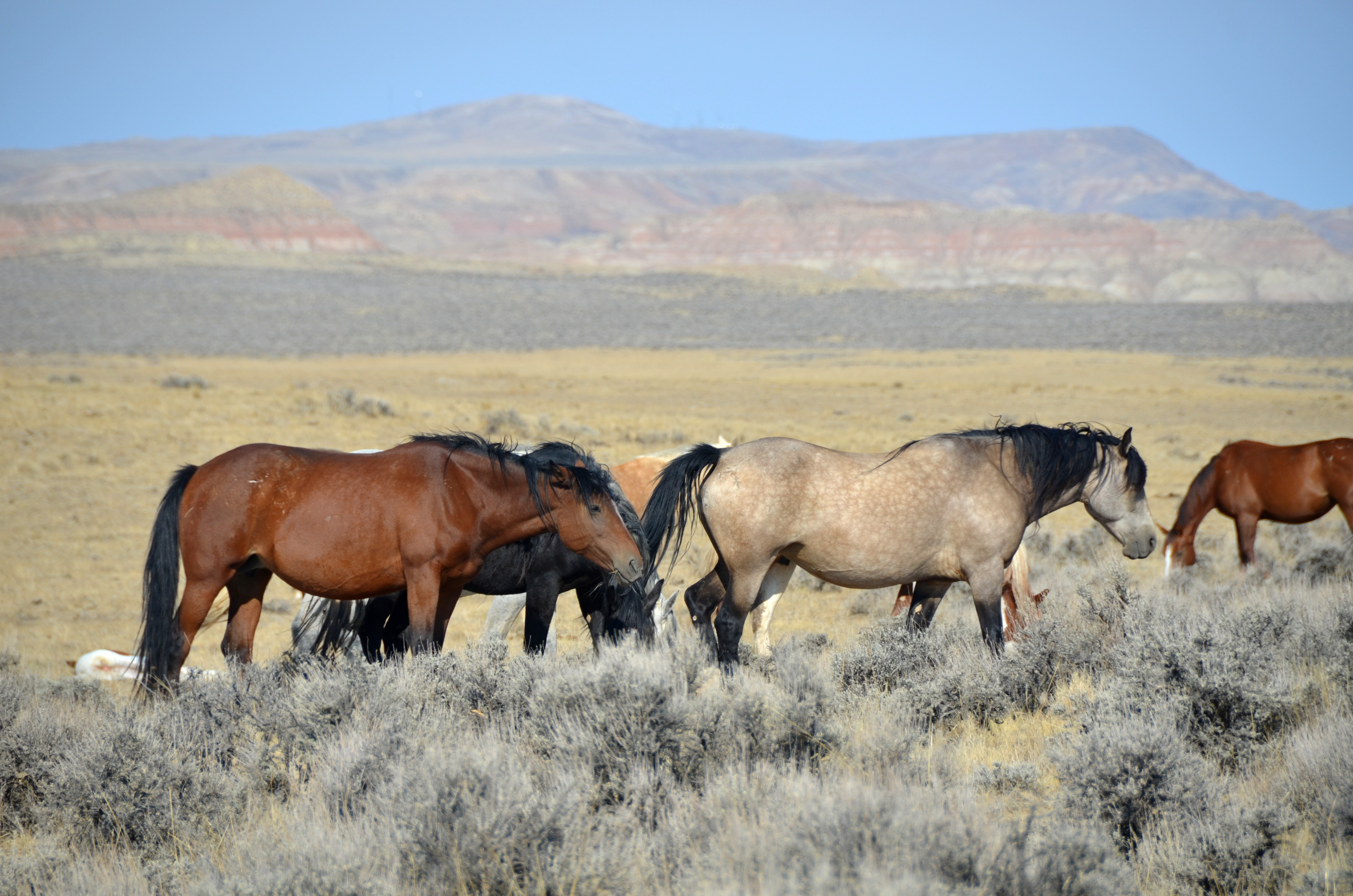 Wild mustangs in Wyoming. In a Bureau of Land Management area in Wyoming.